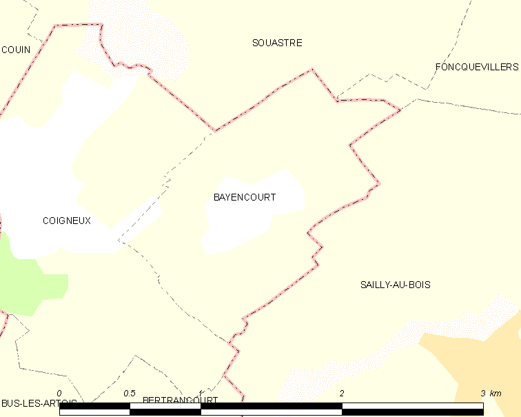 Map of French municipality Bayencourt